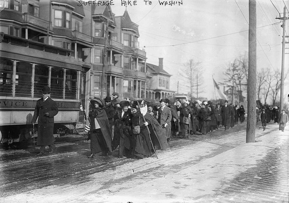 Photo shows the hike lead by "General" Rosalie Jones from New York to Washington, D.C. for the March 3, 1913 National American Woman Suffrage Association parade. Photo taken in Newark, New Jersey on February 12, 1913.